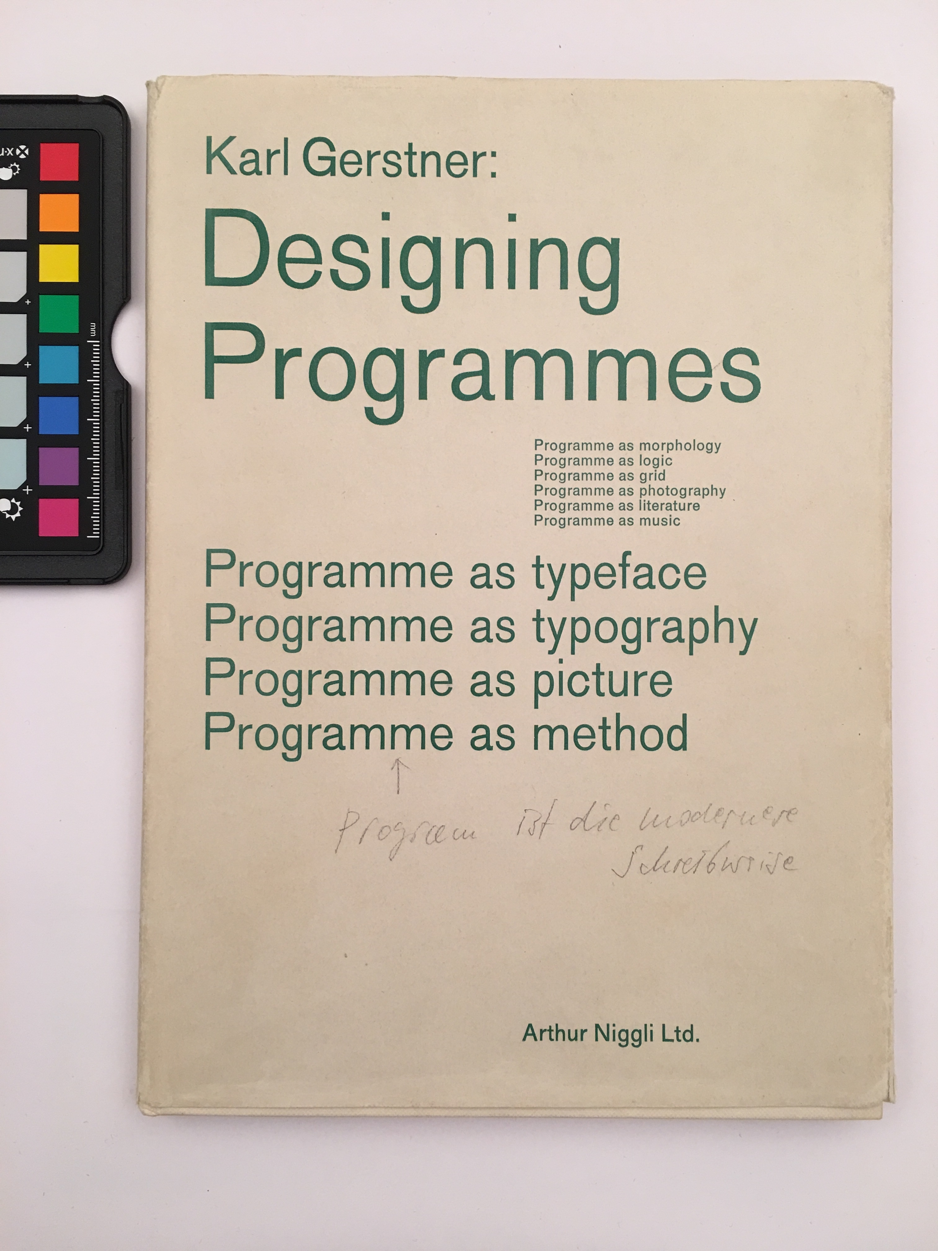 Cover of Karl Gerstner's "Designing Programmes" 1968 Edition. A handwritten note of the author about the correct "modern" writing was added around 2005 while working on the 3rd Edition. The writing says "Program ist die moderne Schreibweise". For size and color reference a Color checker is added at the upper left.